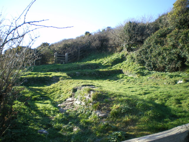 St Michael chapel, Lammana These are the remaining signs of the medieval chapel of St Michael, which was originally built in the 12th century, and became disused at the Reformation in 1548. It was actually one of two such chapels, the other being on Looe Island just offshore, but pilgrims found it a risky (life-threatening...) business getting to and from the island, what with the rough seas and everything; hence the monks built an onshore chapel as well. The site was excavated as an archaeological investigation in the late 1930s, at which time 2 or 3 human burials were found under the floor, along with quantities of pottery which are thought to have been brought to the site when it was used as a dwelling between the mid 1500s and the 1900s.